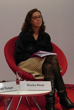 German poet Monika Rinck